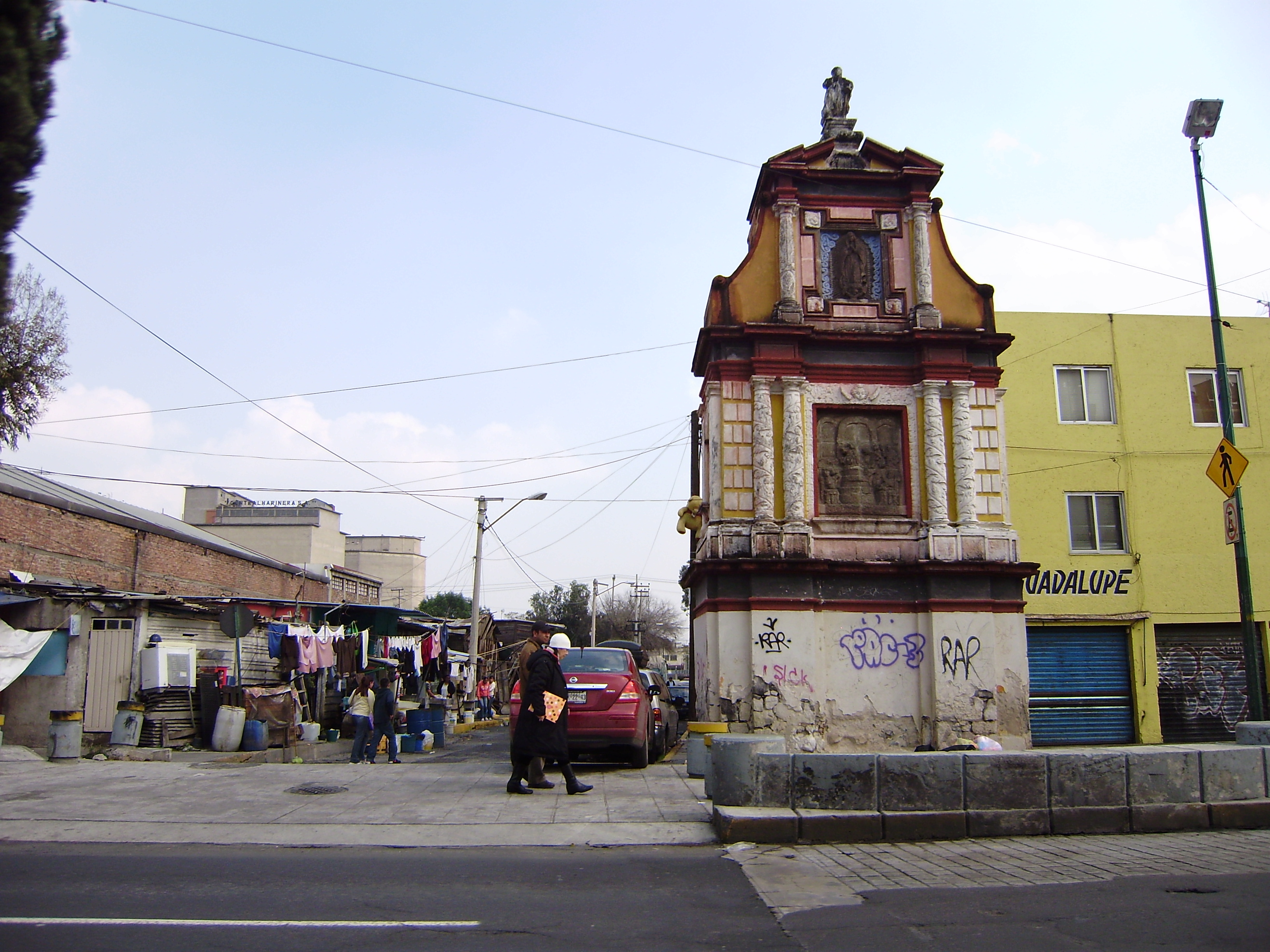 Misterio from Calzada de los Misterios, Peralvillo, Mexico City.